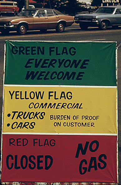 GASOLINE DEALERS IN OREGON DISPLAYED SIGNS EXPLAINING THE FLAG POLICY DURING THE FUEL CRISIS IN THE WINTER OF 1973-74. AS THE SIGN SAYS THE GREEN FLAG MEANS ANYONE CAN GET GAS, THE YELLOW IS FOR COMMERCIAL VEHICLES ONLY AND A RED FLAG MEANS NO GAS AT ALL.